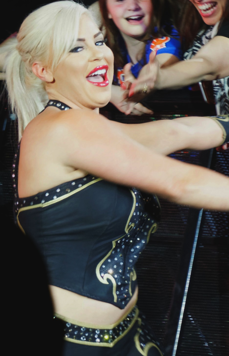 Dana Brooke during a live event in April 2017.